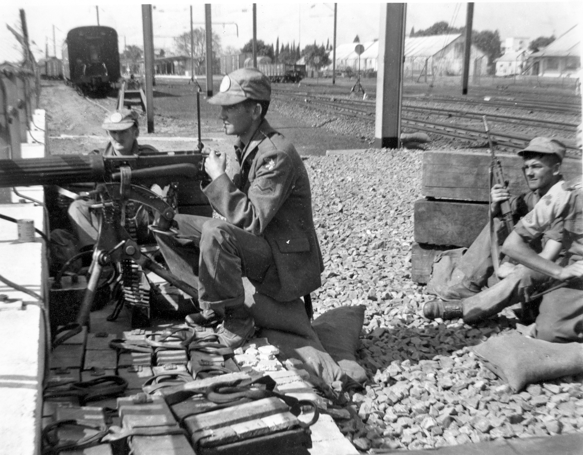 On duty in the Congo